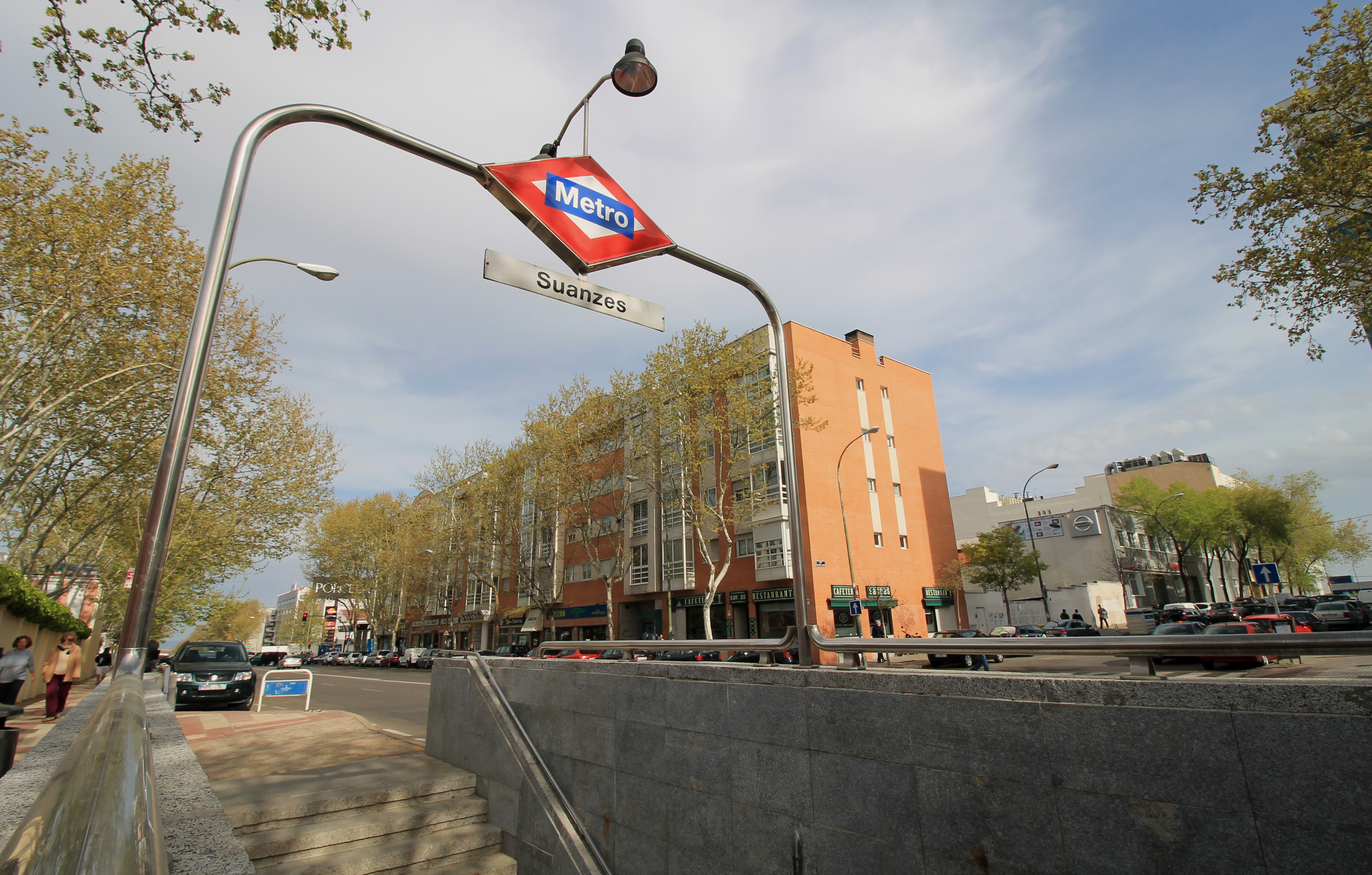 Entrance of Suanzes metro station in Madrid (Spain).